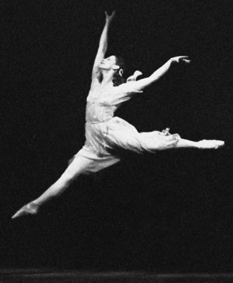 “Maya Plisetskaya in Sergei Prokofyev's Romeo and Juliet ballet”. Maya Plisetskaya in Sergei Prokofyev's Romeo and Juliet ballet. The USSR Bolshoi Theatre (currently, the State Academic Opera and Ballet Theater of Russia).